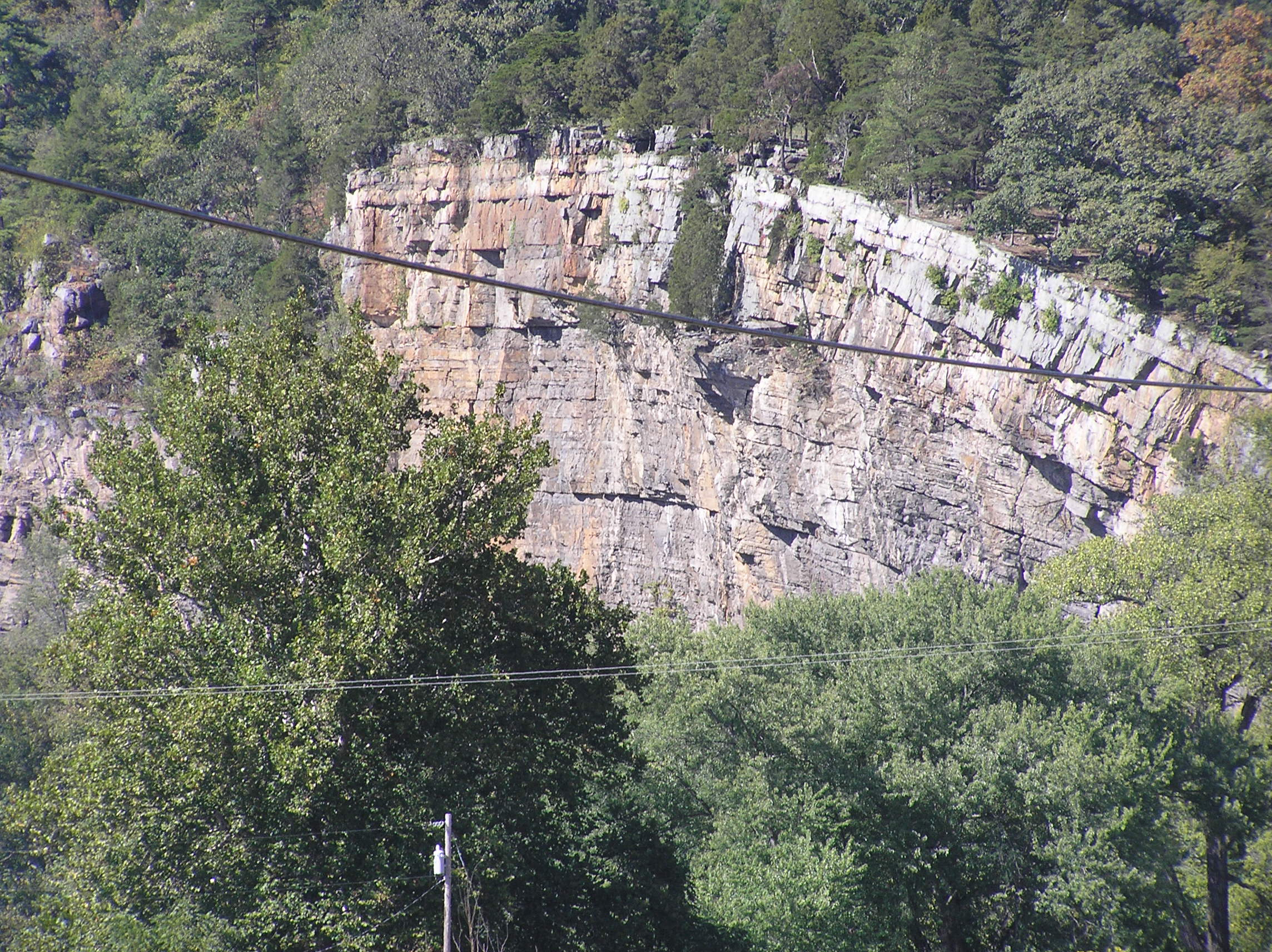 The Hanging Rocks are perpendicular cliffs rising nearly 300 feet above the South Branch Potomac River in Hampshire County, West Virginia, United States, four miles north of Romney at Wappocomo on West Virginia Route 28. The sandstone layers of the Hanging Rocks are anticlinal. The rock formation lies within a gap in Mill Creek Mountain formed by the South Branch Potomac River.